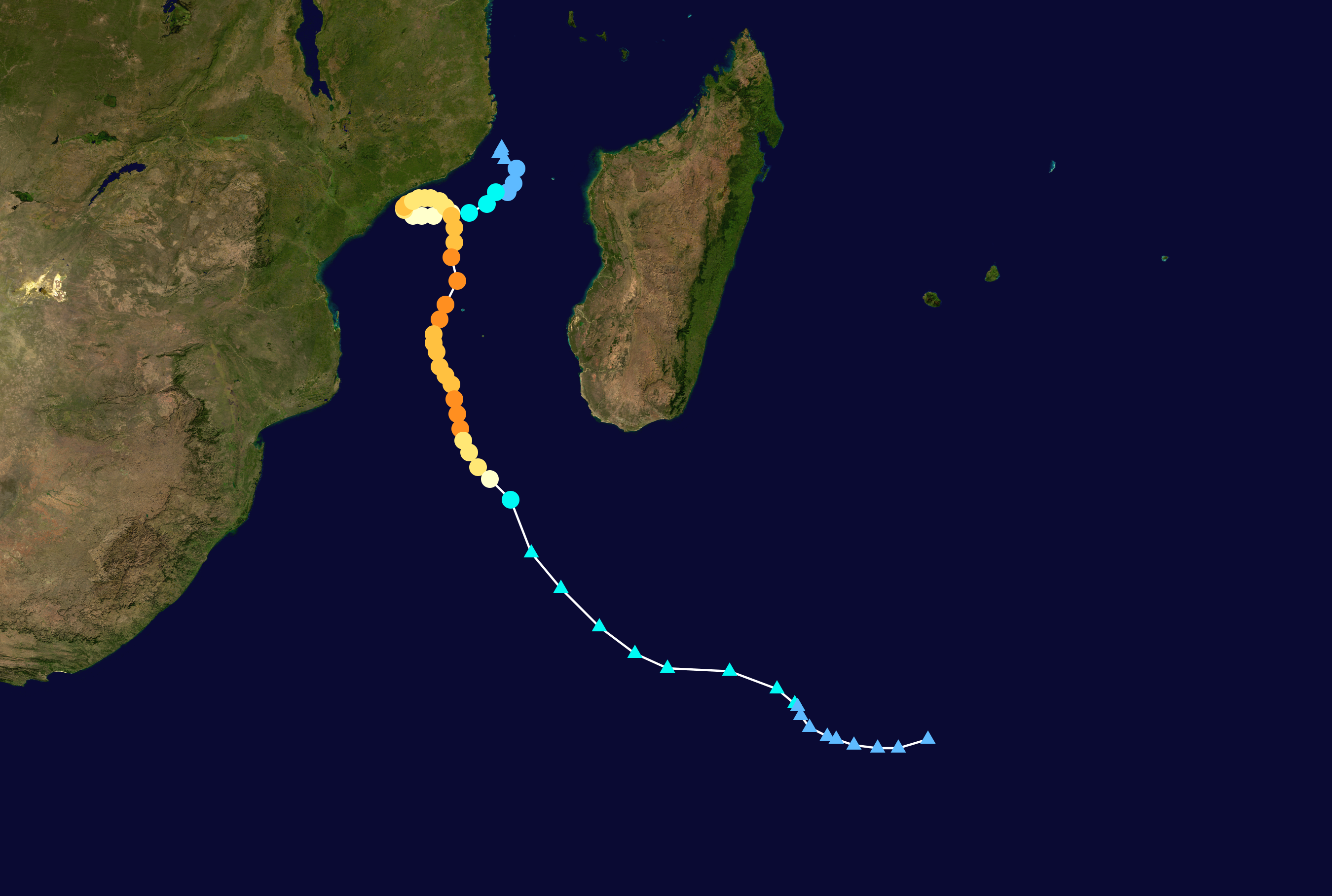 Track map of Intense Tropical Cyclone Funso of the 2011-12 South West Indian Ocean cyclone season. The points show the location of the storm at 6-hour intervals. The colour represents the storm's maximum sustained wind speeds as classified in the Saffir–Simpson scale (see below), and the shape of the data points represent the nature of the storm, according to the legend below. Saffir–Simpson scale Tropical depression≤38 mph≤62 km/h Category 3111–129 mph178–208 km/h Tropical storm39–73 mph63–118 km/h Category 4130–156 mph209–251 km/h Category 174–95 mph119–153 km/h Category 5≥157 mph≥252 km/h Category 296–110 mph154–177 km/h Unknown Storm type Tropical cyclone Subtropical cyclone Extratropical cyclone / Remnant low / Tropical disturbance / Monsoon depression